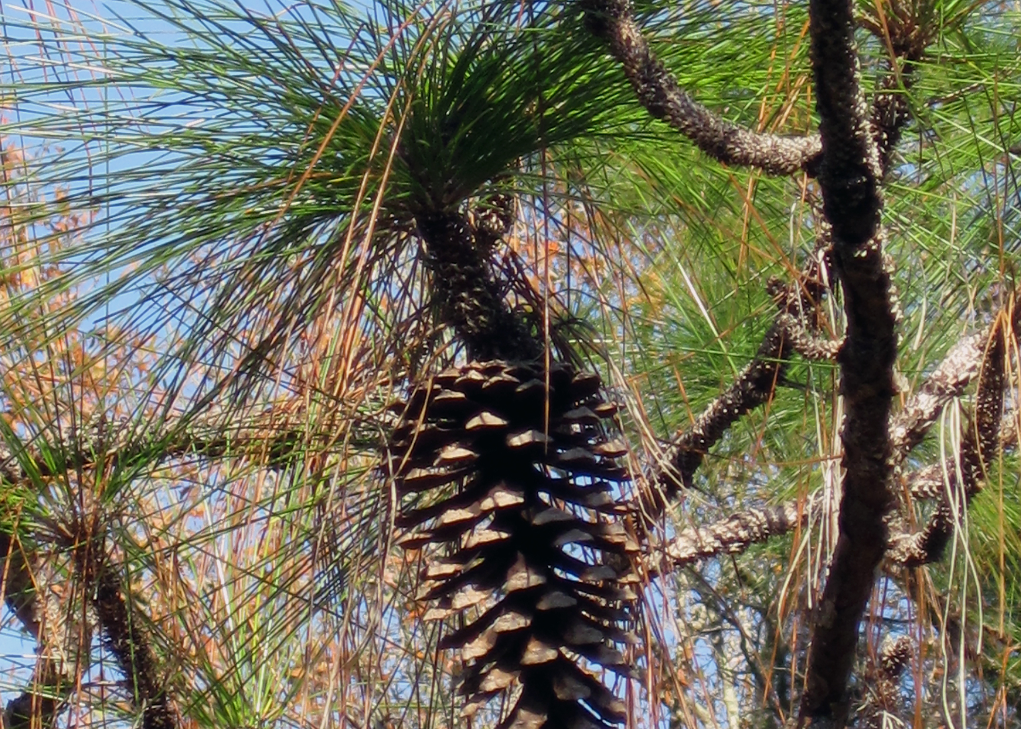 Pinus palustris foliage and cone, Watermelon Pond Preserve, Archer, Alachua County, Florida